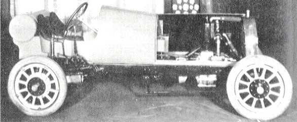 1910 Only 12HP Model A Racytype Torpedo single cylinder, 206,3 c.i.; side view with open hood